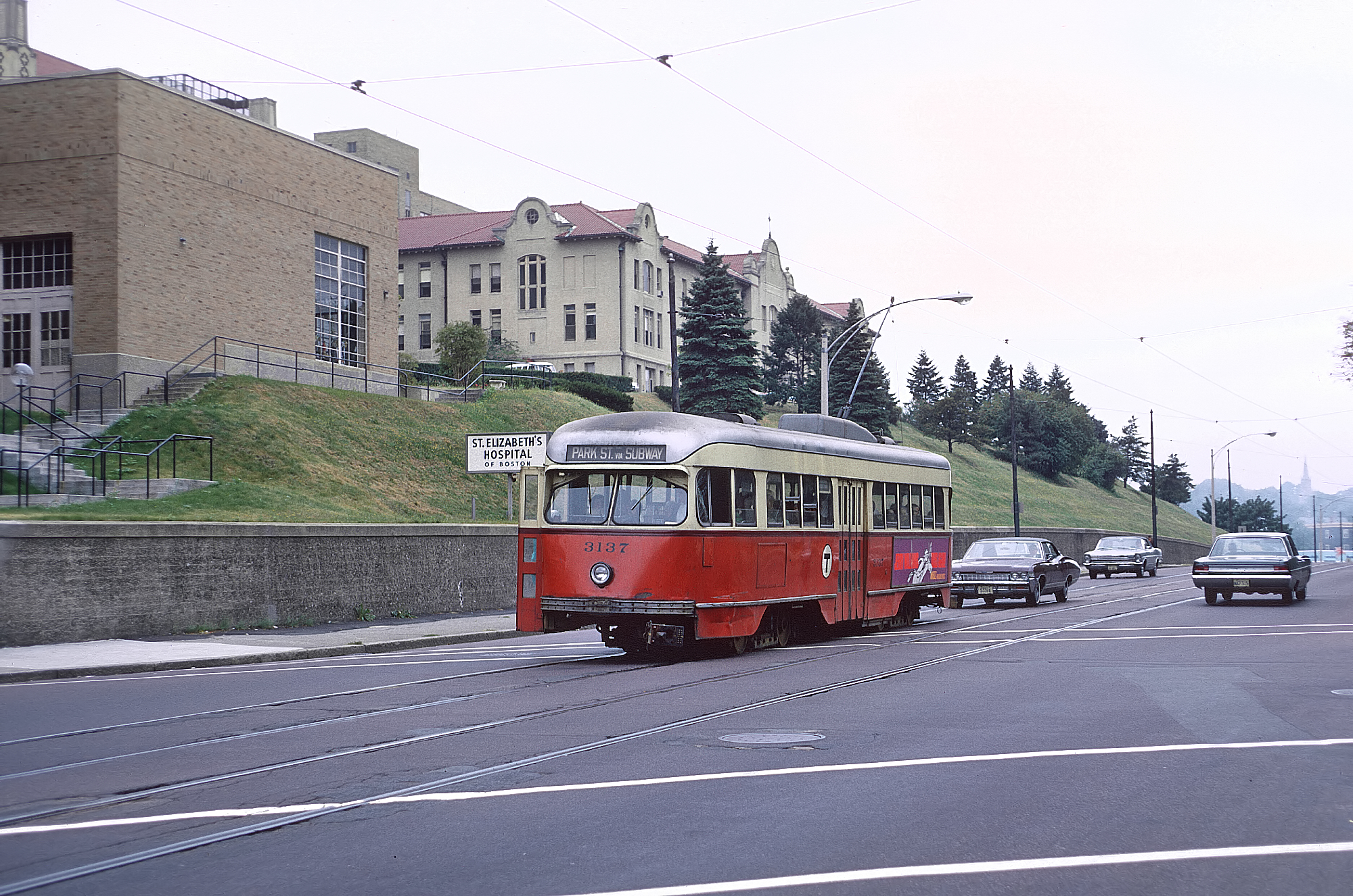 Inbound PCC streetcar #3137 boards passengers at St. Elizabeth's Hospital on Cambridge Street in September 1968